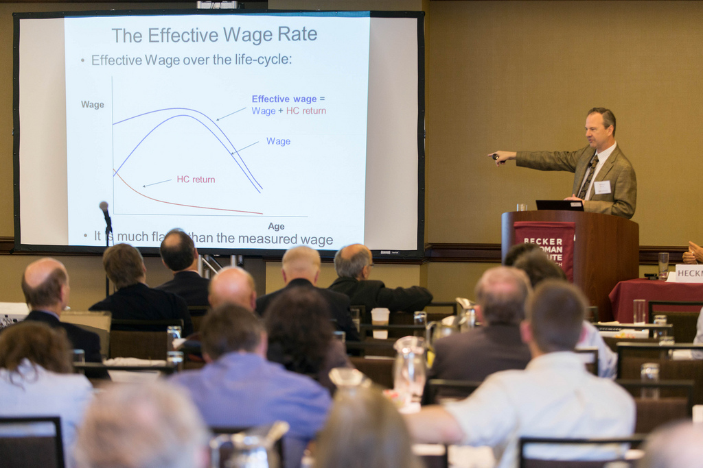 Mike Keane at BFI